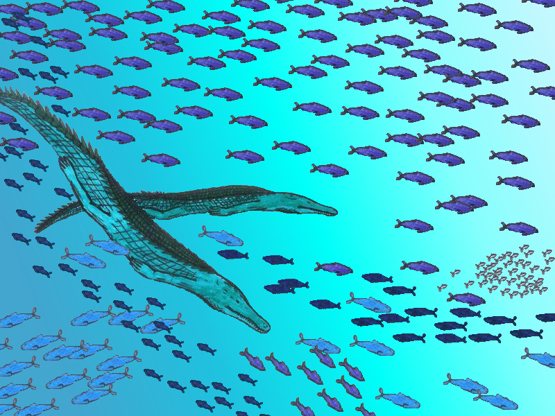 Two Elosuchus are hunting on fish in North-Africa of the Early-Cretaceous.